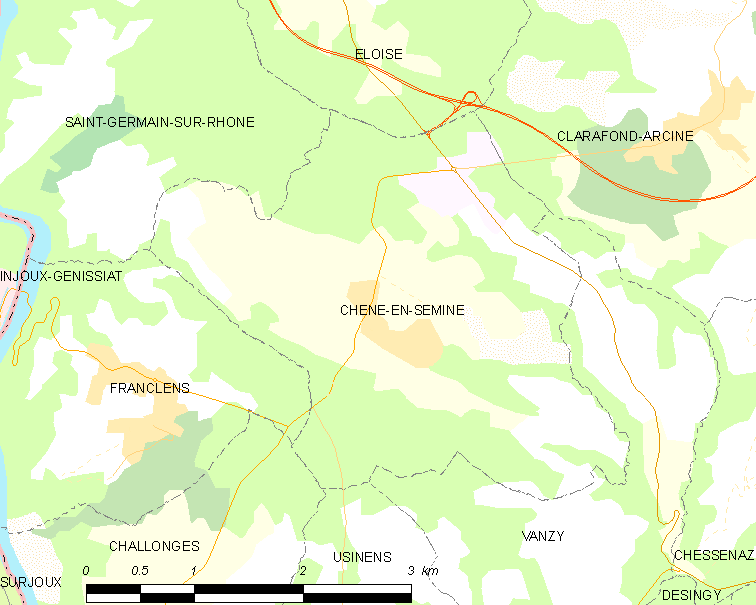 Map of French municipality Chêne-en-Semine